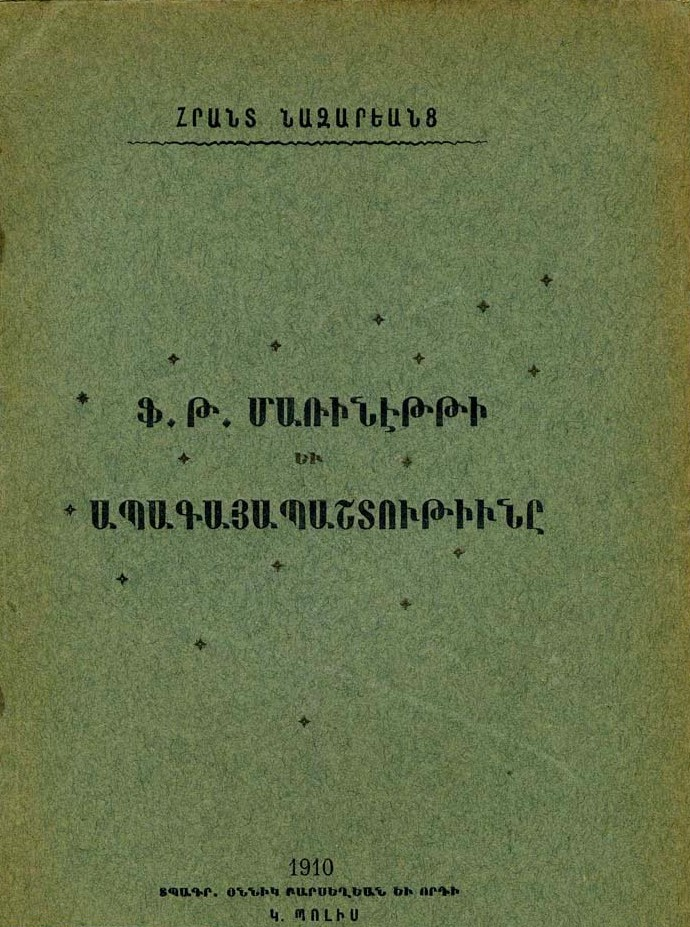 F.T. Marinetti and Futurismo by Hrand Nazariantz